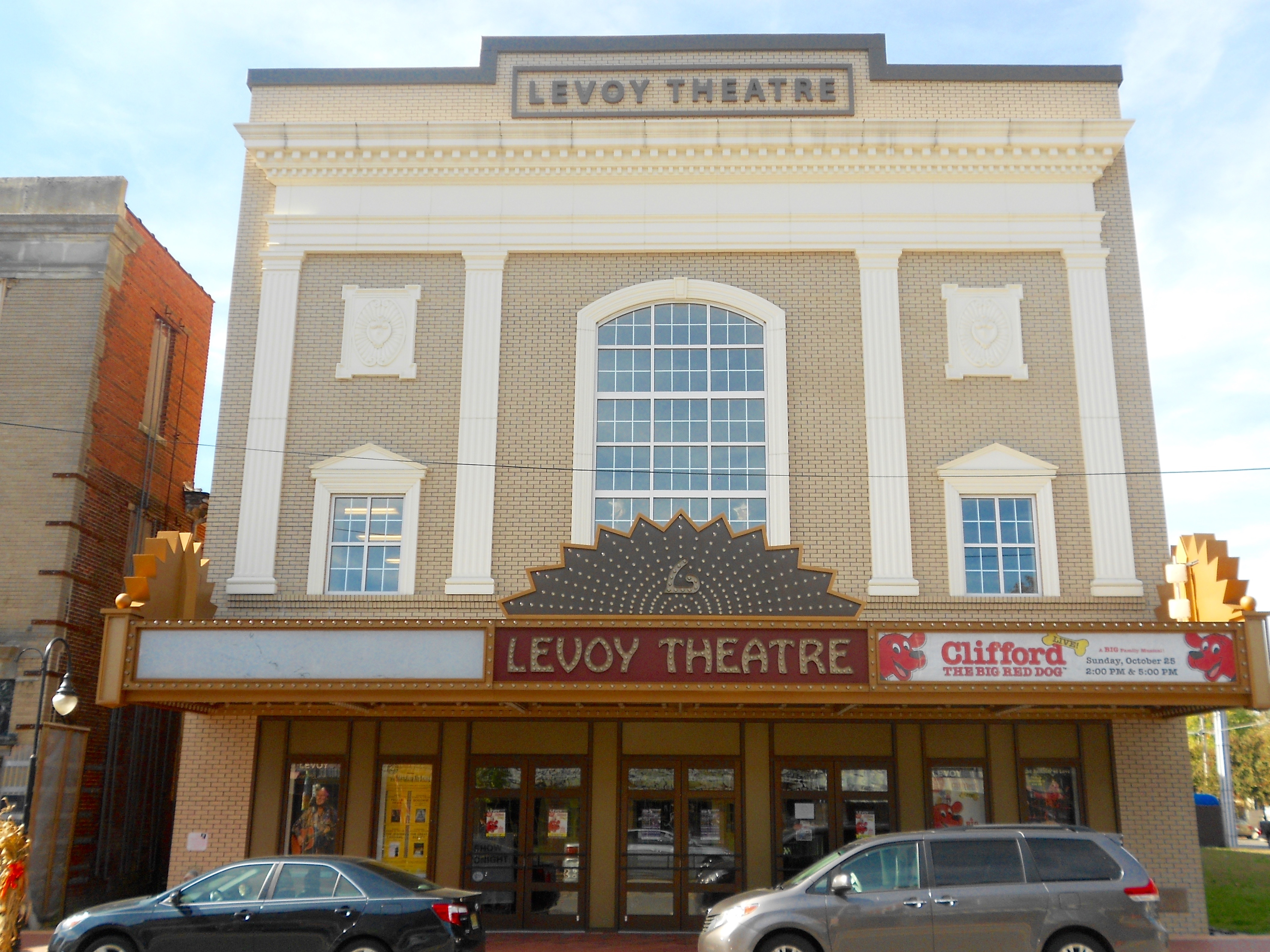 The Levoy Theater in Millville, New Jersey. The old Levoy Theater, built on the same site was listed on the National Register of Historic Places/